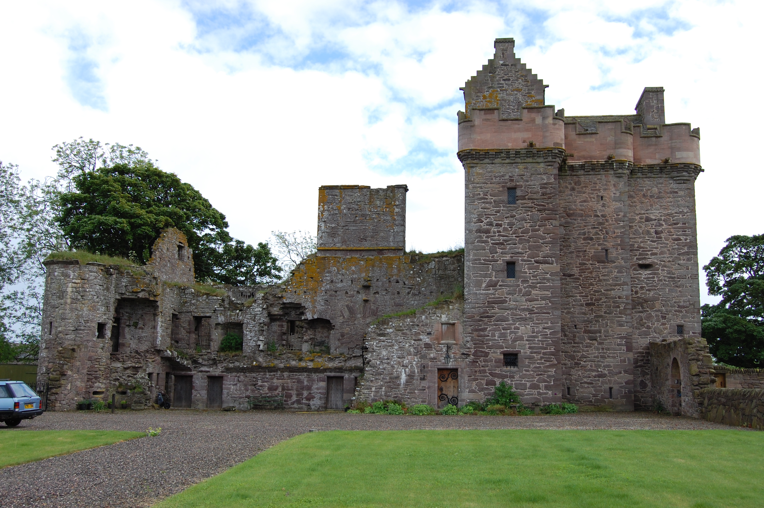 Melgund Castle, front view